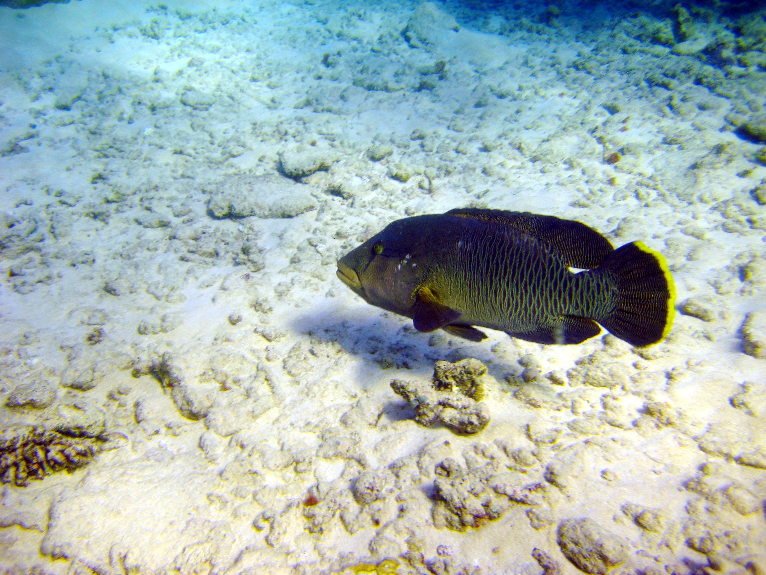 Australia, Great Barrier Reef.